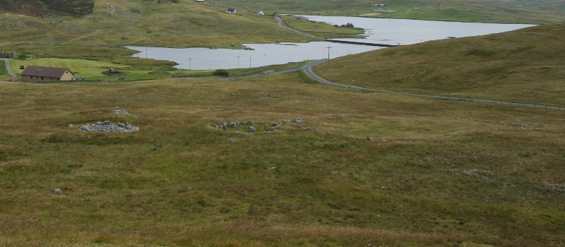 Scord of Brouster, West Mainland, Shetland, Scotland